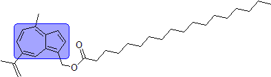 Structure of the azulene molecule in the Lactarius indigo mushroom